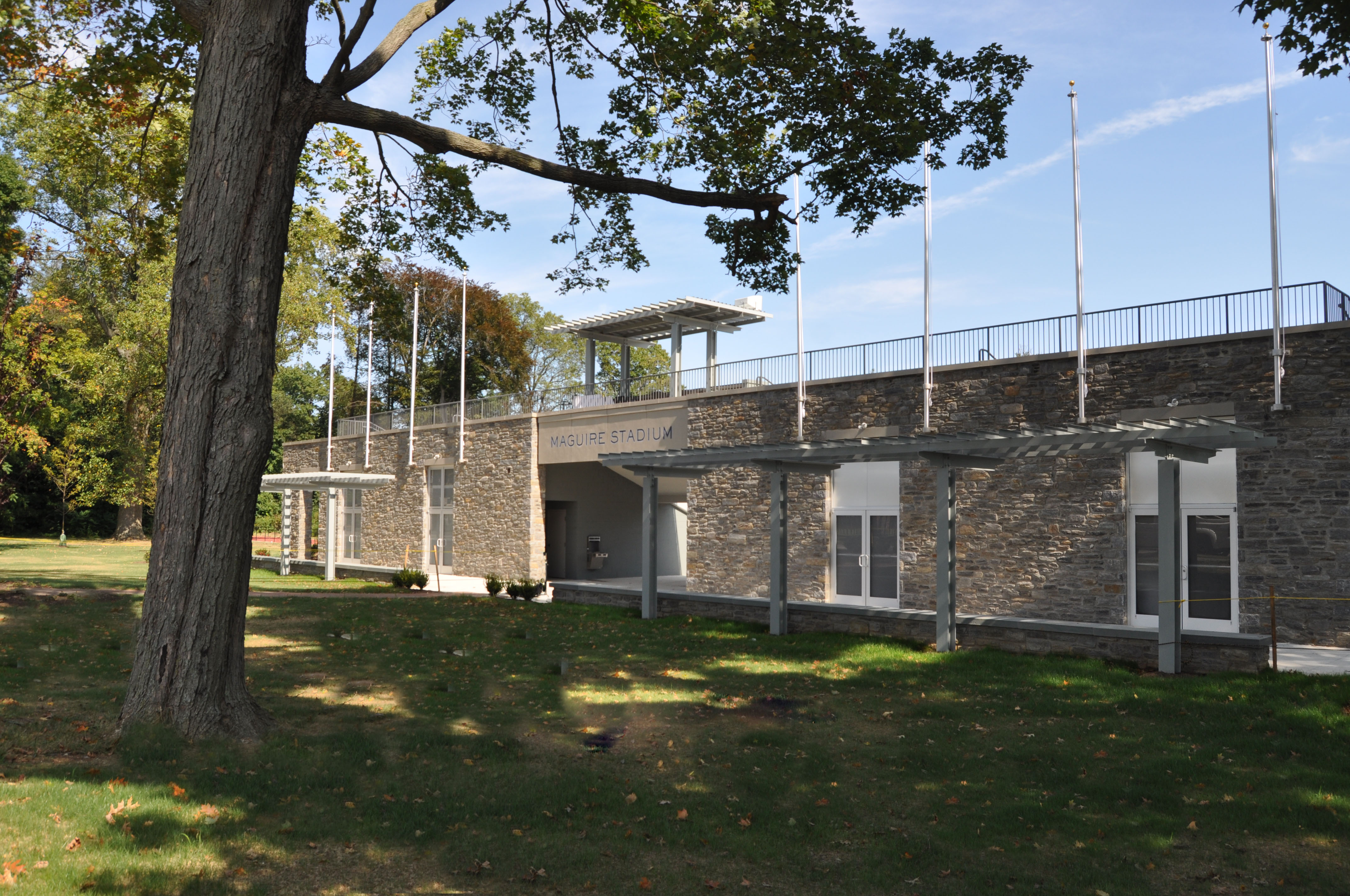 Maguire Stadium at SCH Academy